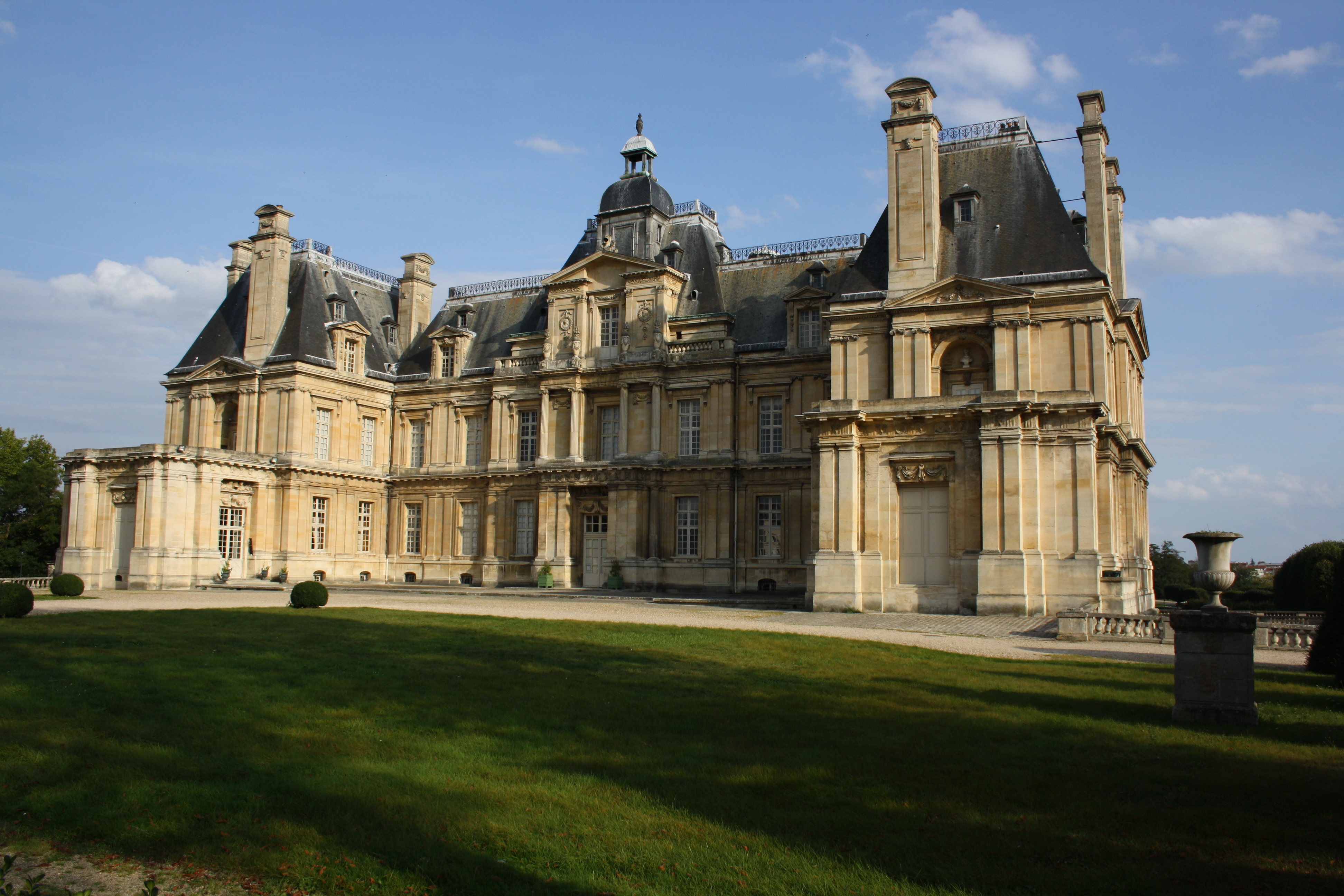 Maisons castle in Maisons-Laffitte, France.